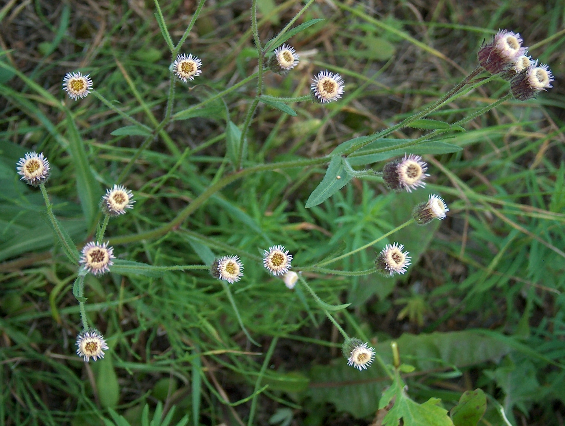 Blue Fleabane (Erigeron acer) in Kerava, Finland